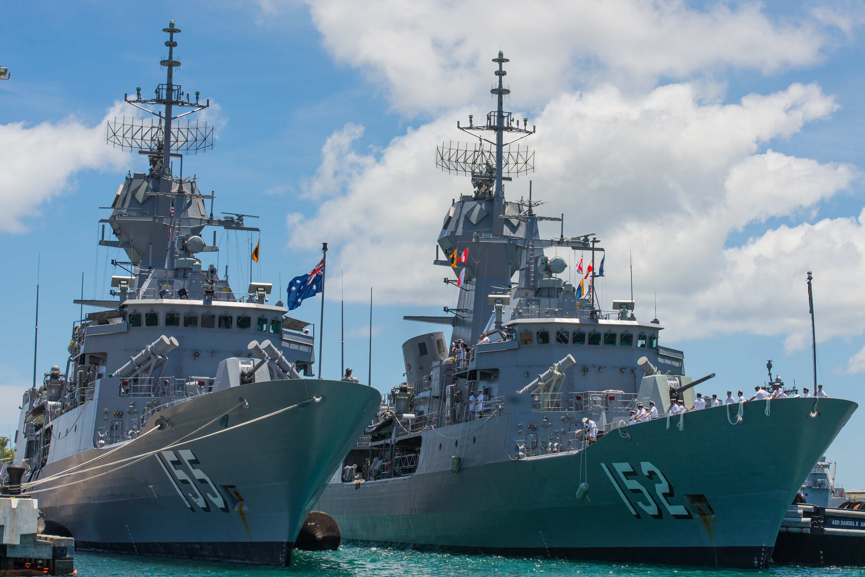 160628-N-KC128-230 PEARL HARBOR (June 27, 2016) Royal Australian Navy Anzac-class frigates HMAS Ballarat (FFH 155) and HMAS Warramunga (FFH 152) float beside each other at Joint Base Pearl Harbor-Hickam for Rim of the Pacific 2016. Twenty-six nations, more than 40 ships and submarines, more than 200 aircraft and 25,000 personnel are participating in RIMPAC from June 30 to Aug. 4, in and around the Hawaiian Islands and Southern California. The world's largest international maritime exercise, RIMPAC provides a unique training opportunity that helps participants foster and sustain the cooperative relationships that are critical to ensuring the safety of sea lanes and security on the world's oceans. RIMPAC 2016 is the 25th exercise in the series that began in 1971. (U.S. Navy photo by Mass Communication Specialist 1st Class Daniel Hinton)